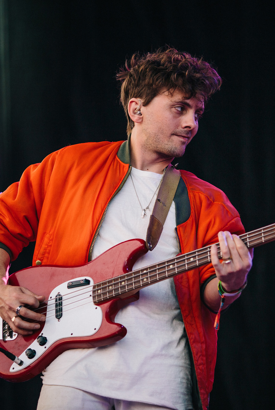 Chairlift at Main Stage during Treefort 2016